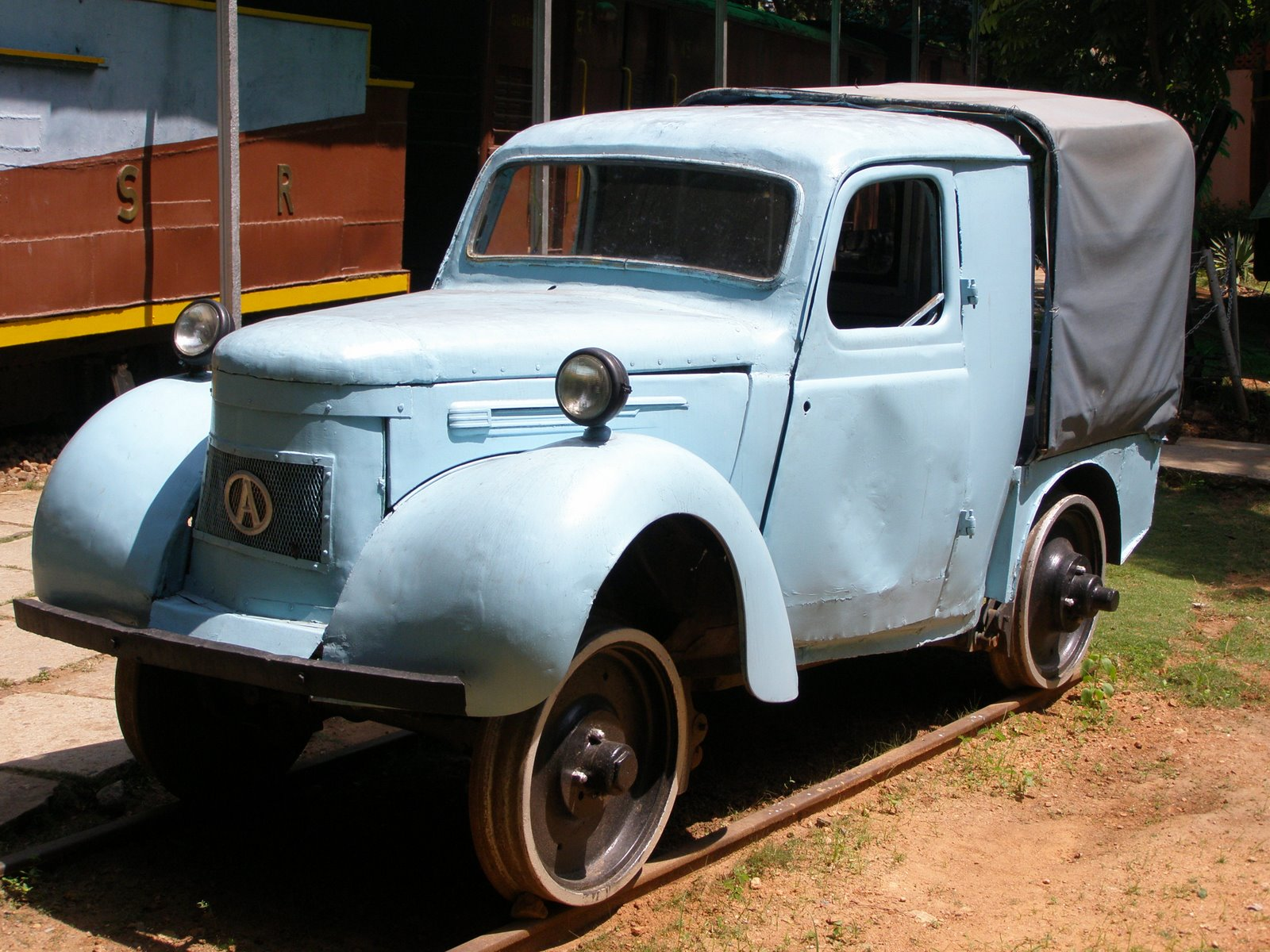 This is a photo of the Austin Rail car, taken at the Rail Museum in Mysore, India